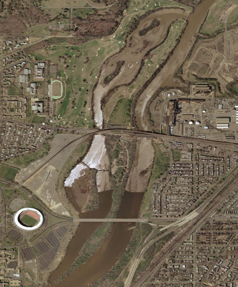 Map of the anacostia river and surrounds near RFK stadium and the Burnham Barrier in NE Washington DC.